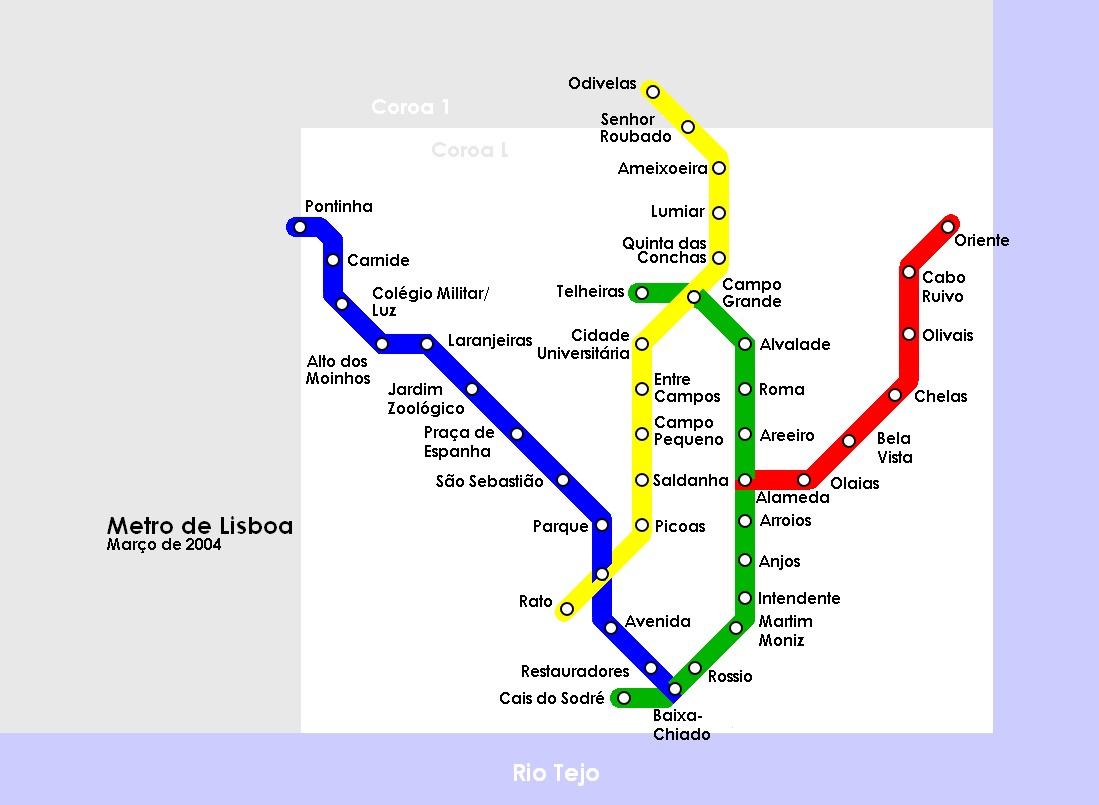 Map of Lisbon Metro in March 2004